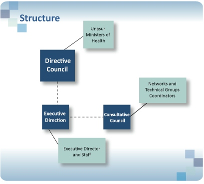 Isags' structure in english